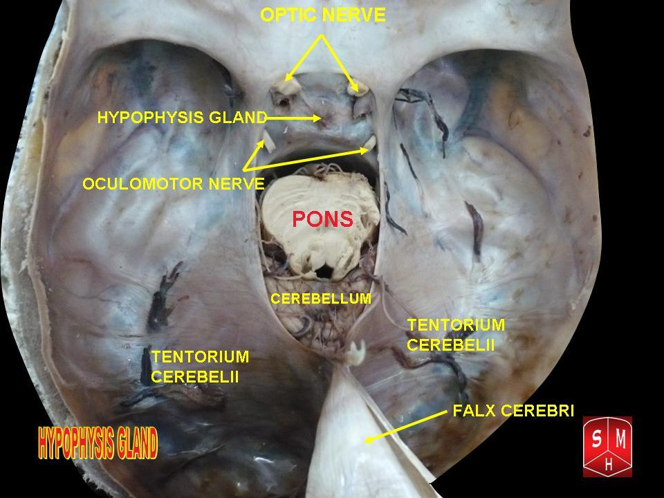 Anatomical surface preparation showing eye spaces, section of pons, bottom of pituitary